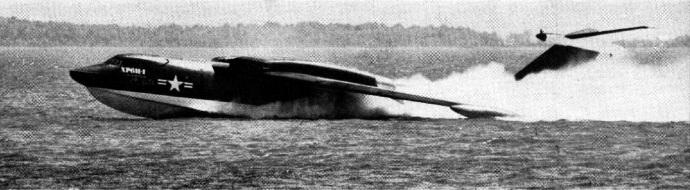 A U.S. Navy Martin XP6M-1 SeaMaster taking off.